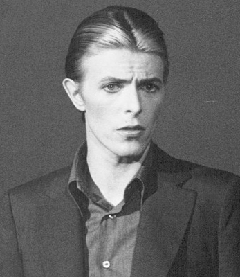 Photo of David Bowie and Cher from her solo variety television program Cher.